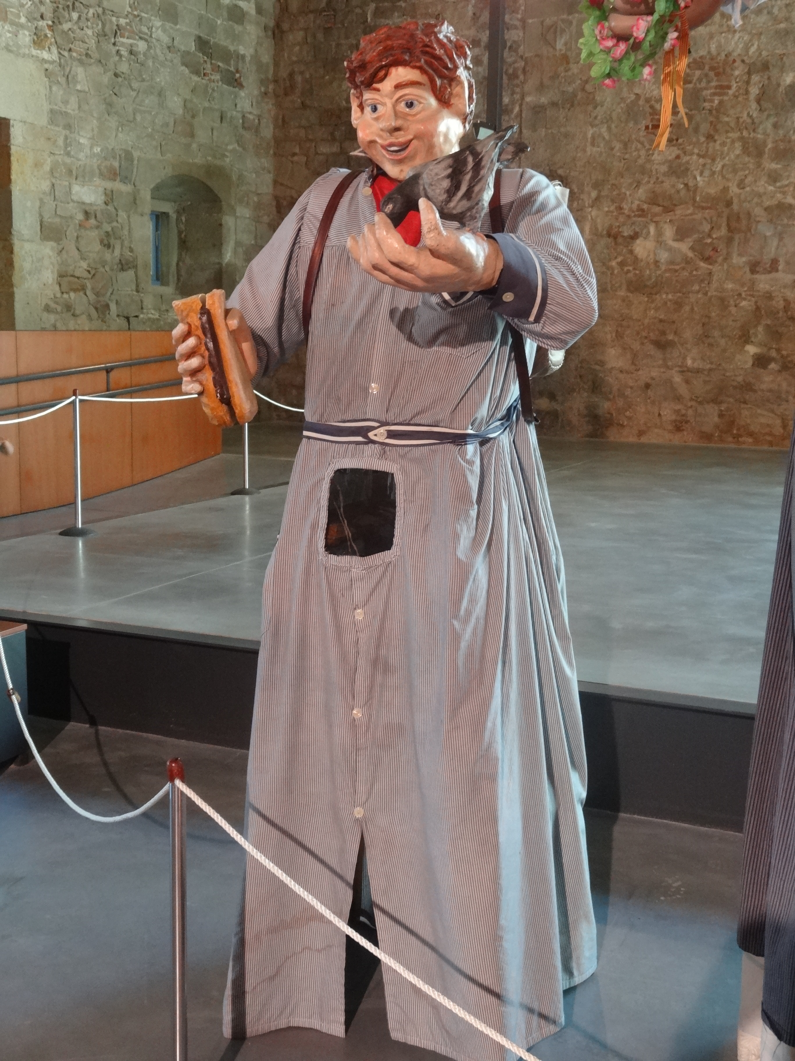 Exhibition of Giants at the Museu Marítim, Barcelona, 2013.